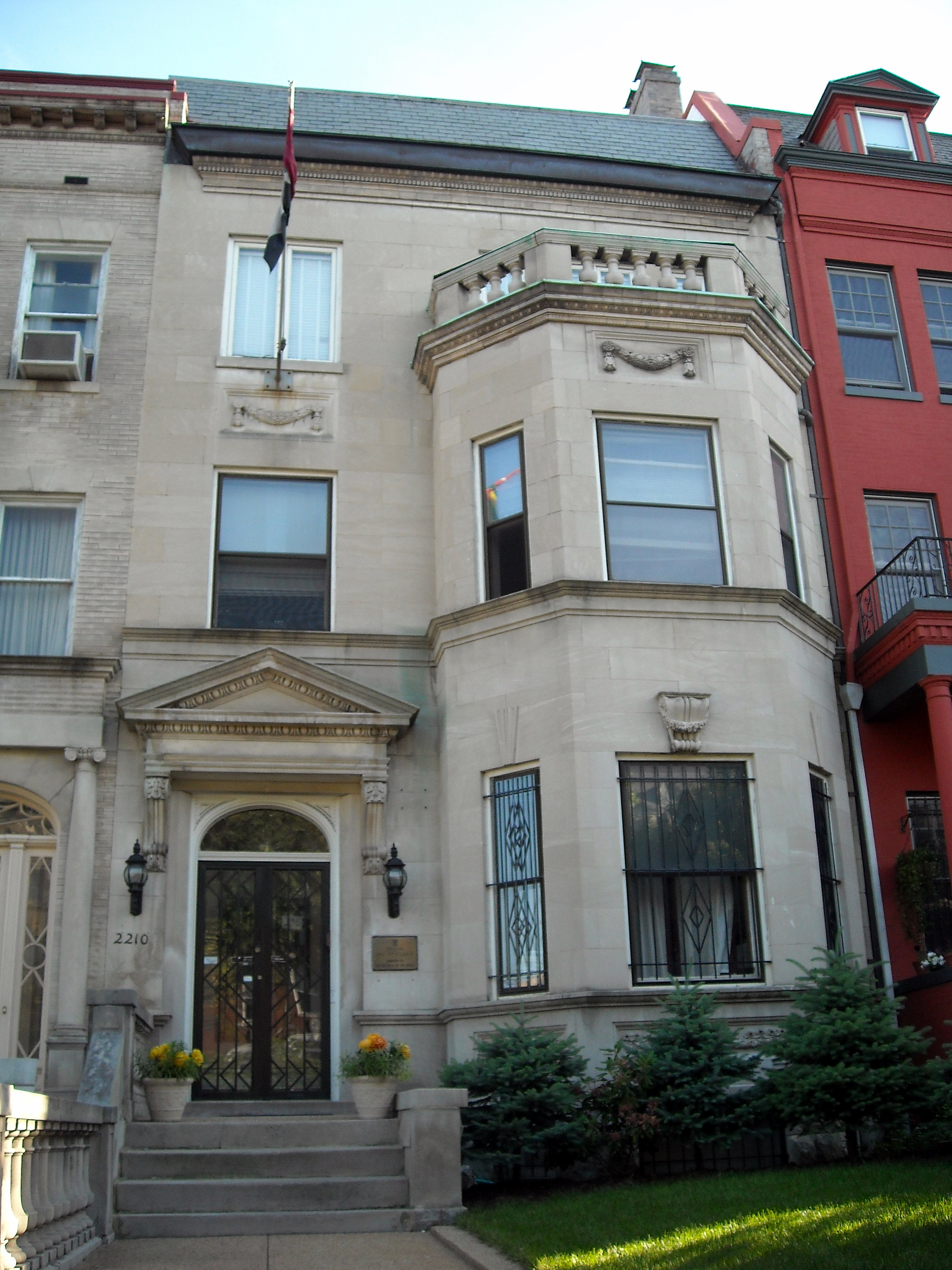 The Embassy of Sudan at 2210 Massachusetts Avenue, NW in Washington, D.C. The building is located on Embassy Row, between Dupont Circle and Sheridan Circle.